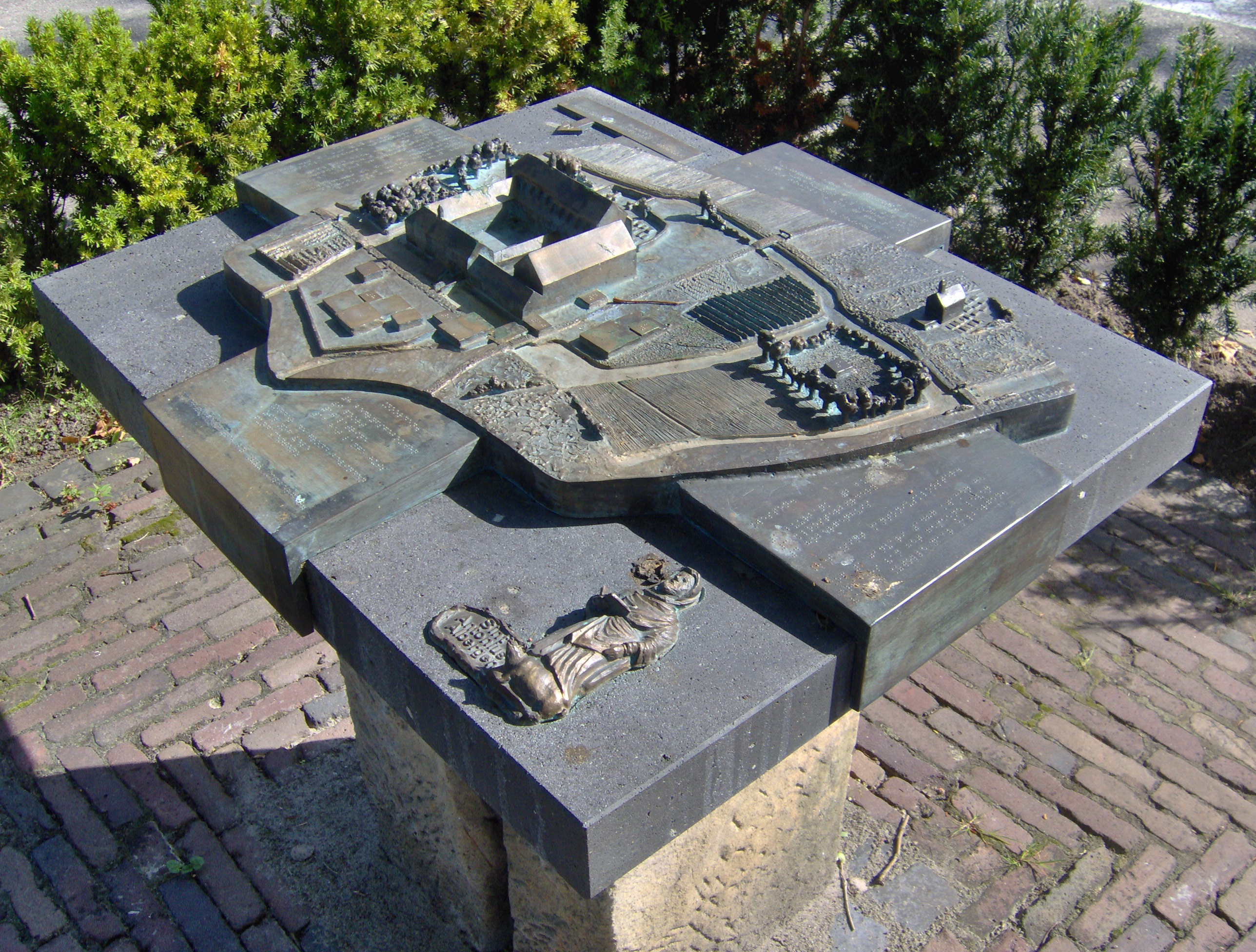 A maquette of the former "Sint Antoniusklooster", the Saint Anthony the Great convent in Albergen, municipality of Tubbergen, The Netherlands